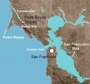 Relief map of the San Francisco Bay Area Region — with San Francisco Bay and its surrounding landforms, and the Pacific Ocean coastline. Credits Based on Image:Wpdms usgs photo point reyes large.jpg by Matthew Trump. Modified under GFDL and re-released under that license. Modifications on 2006-03-30 by George William Herbert. Georgewilliamherbert 17:55, 30 March 2006 (UTC)